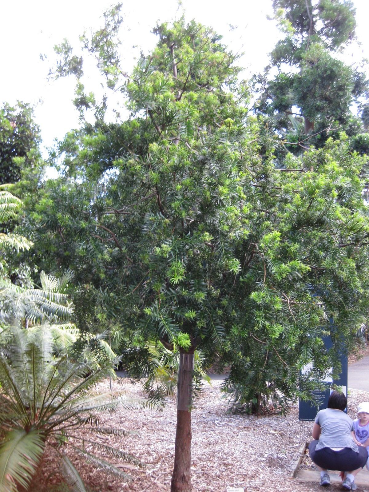 Photographed at the Royal Botanic Gardens Sydney (Australia) in December